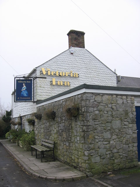 The Victoria Inn, Sigingstone A youthful Queen Victoria on the sign.